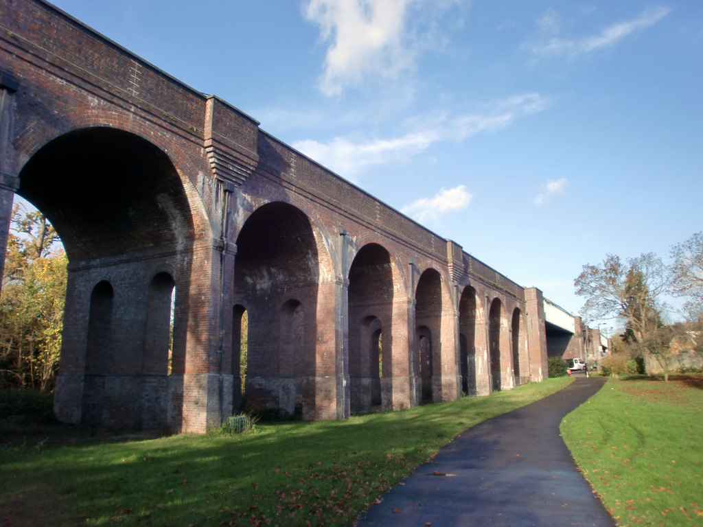 Arnos Park Viaduct 25 Nov 2011.